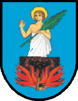 Coat of arms of Ober Sankt Veit and Unter Sankt Veit, Vienna